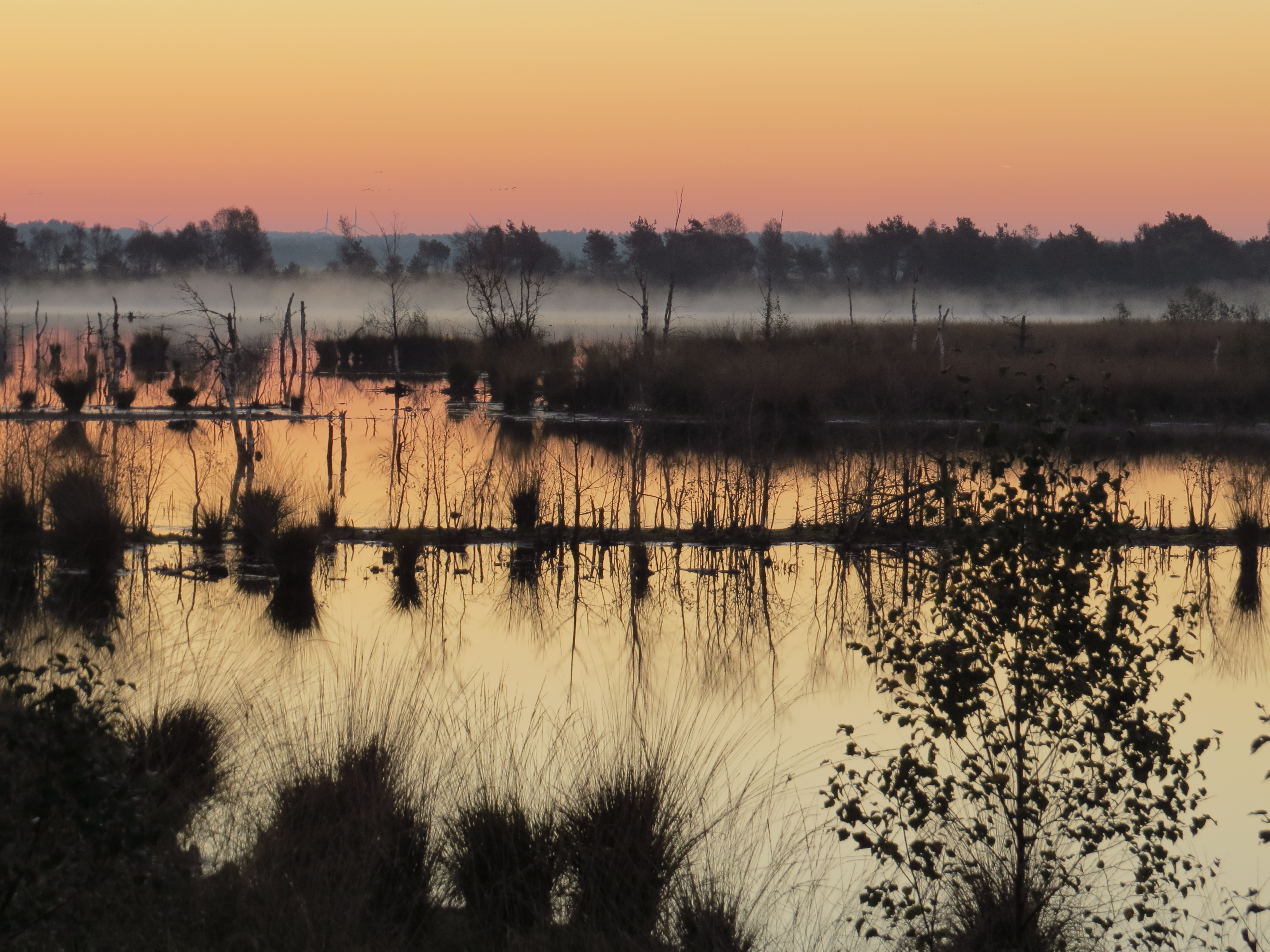 Sunrise at the Huvenhoopsmoor (nature reserve)